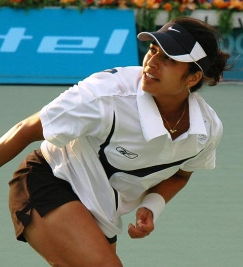 Cropped image from Shikha Uberoi at the 2006 Asian Games.jpg